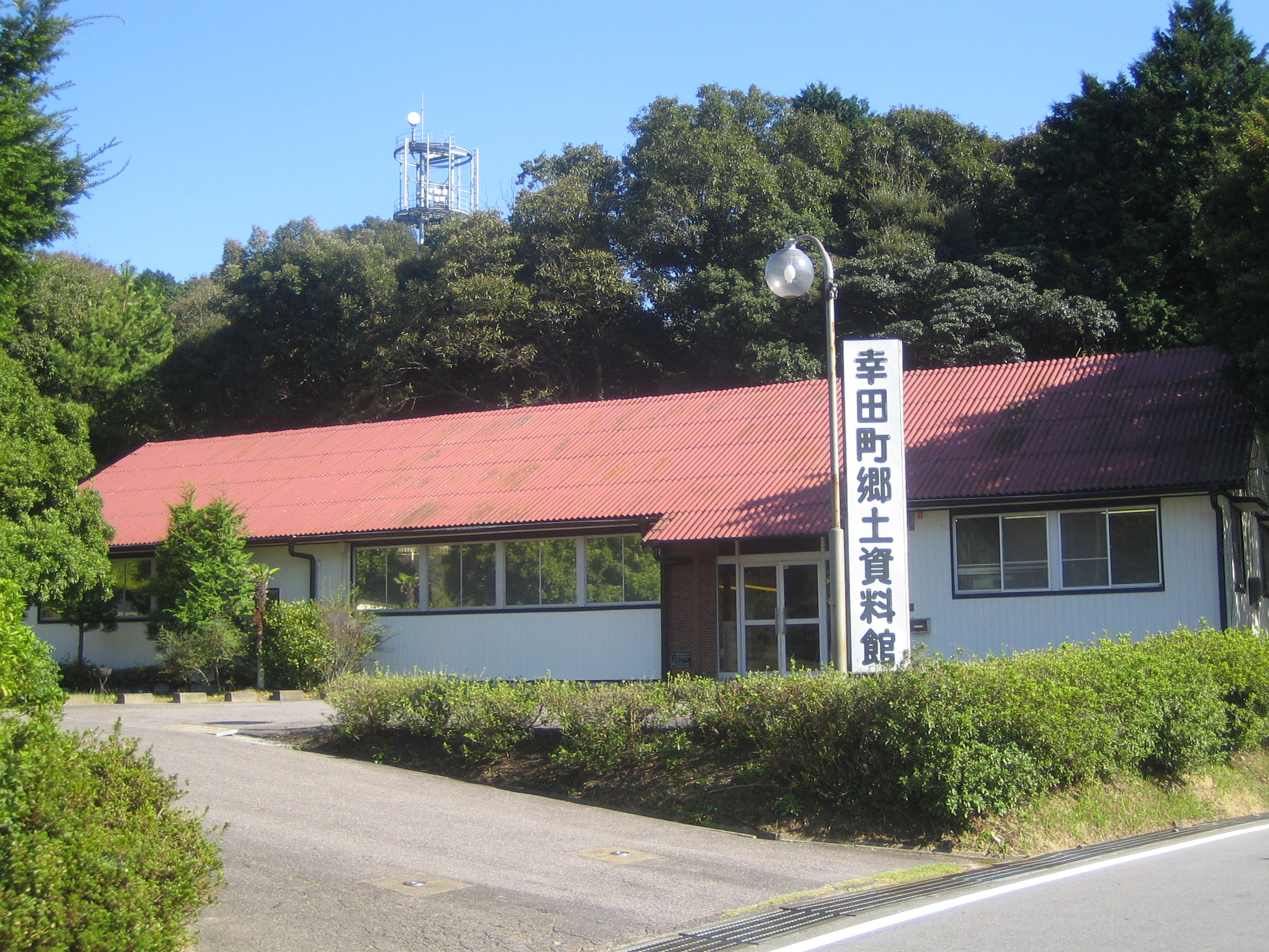 Kota Town Local Museum (幸田町郷土資料館) , in Kota, Aichi, Japan